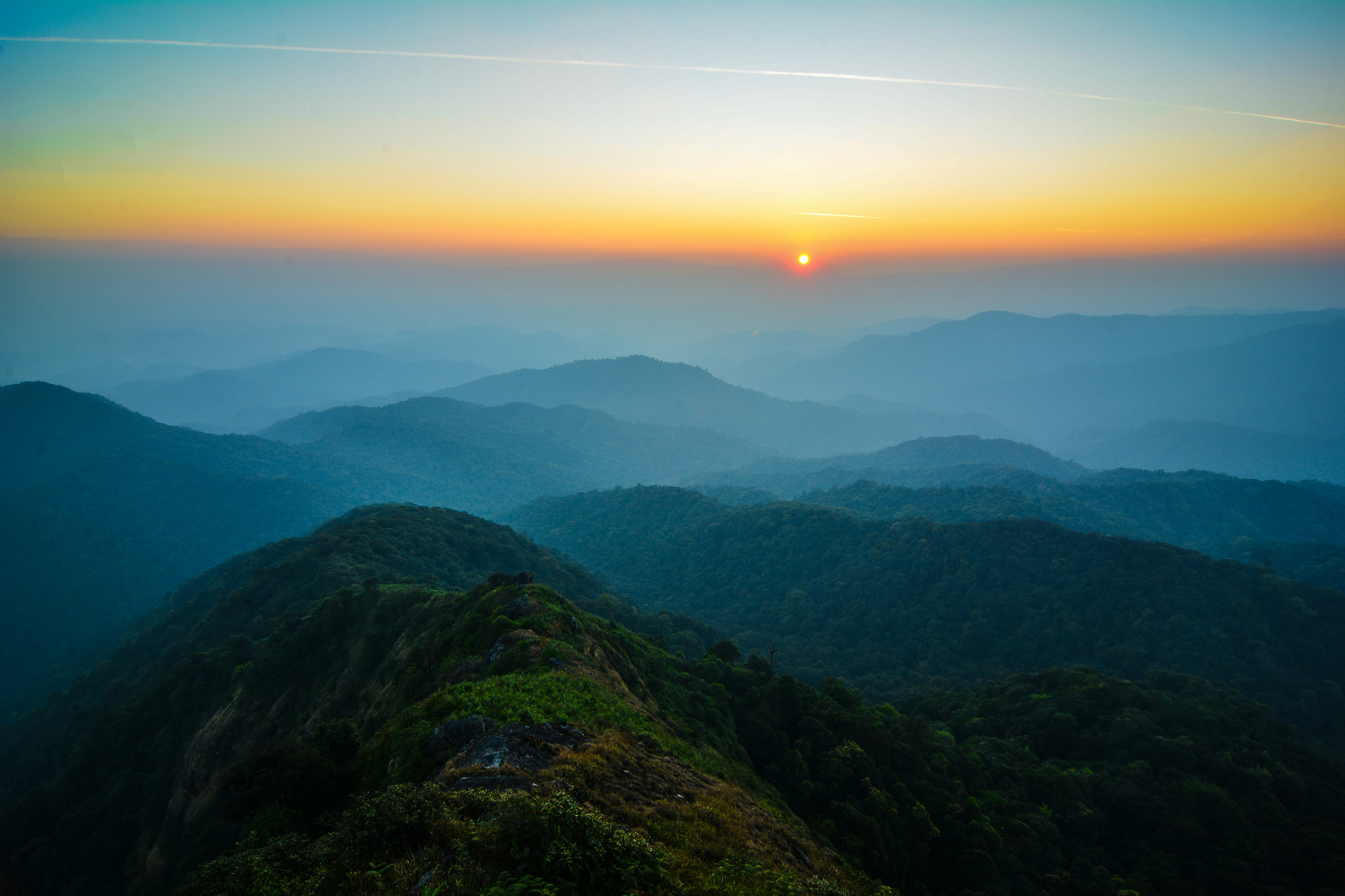 View of Mae Wong National Park from top of Mo Ko Chu peak.